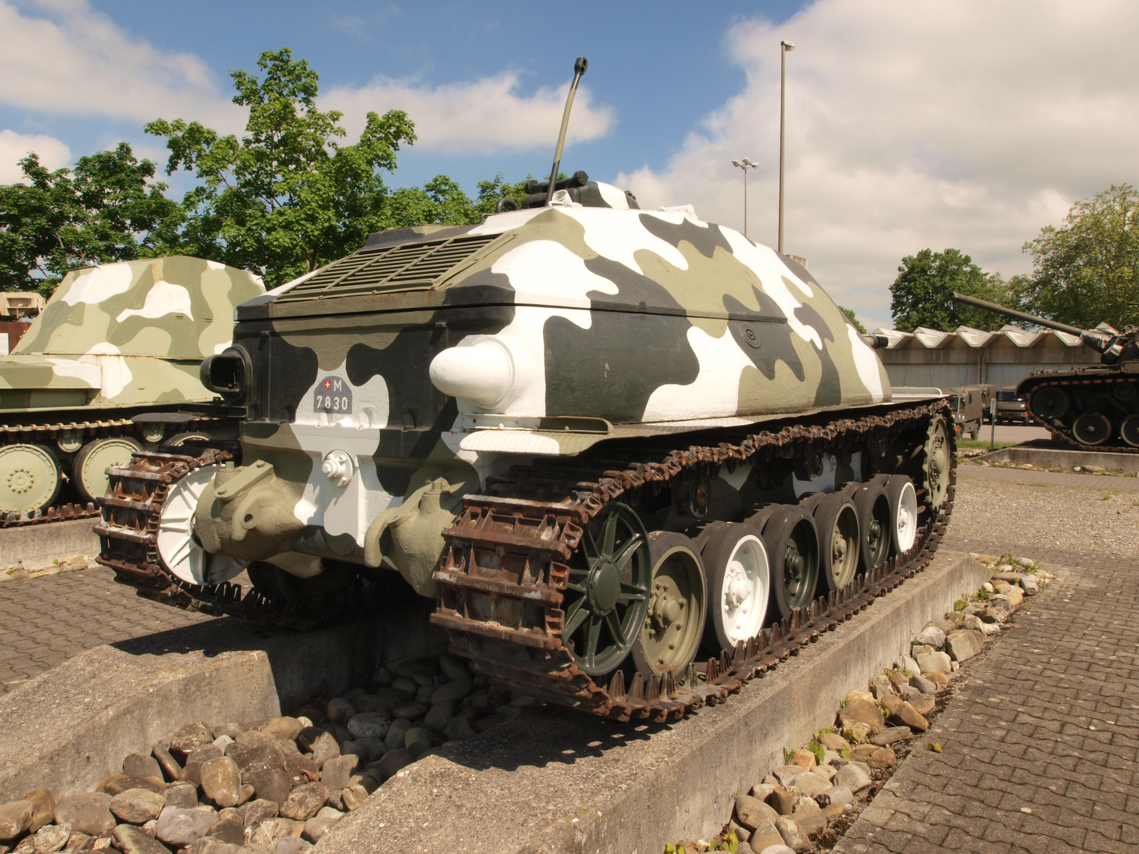 Photographed at the army base Thun, Switserland.